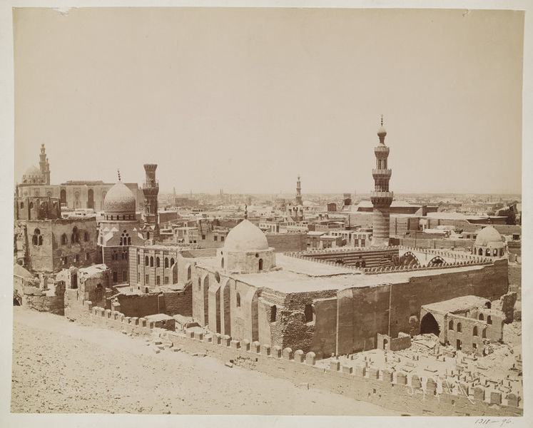 Photo by Jean Pascal Sebah